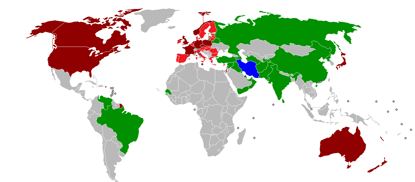 2009 Iranian Presidential election international response